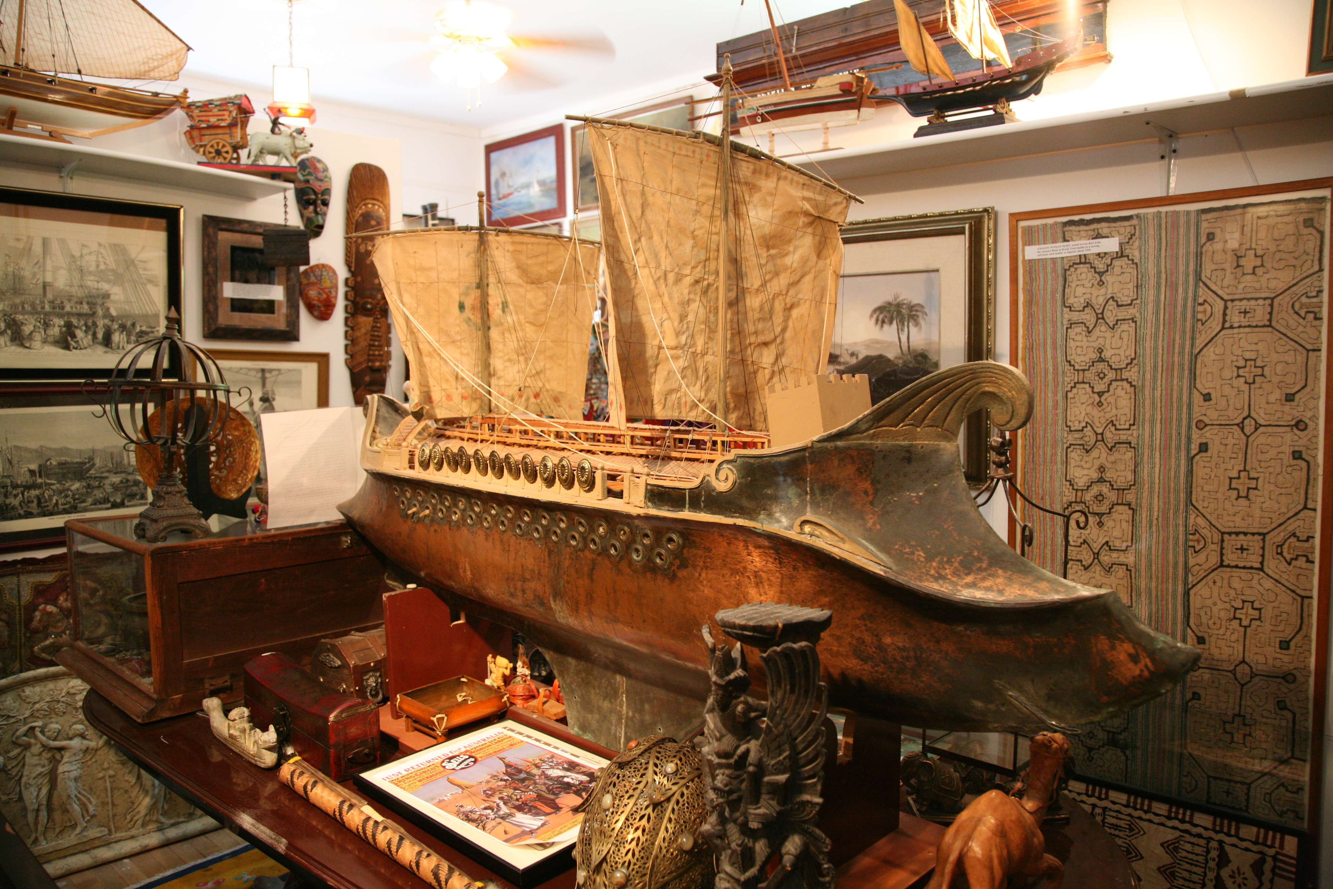 Movieprop from the movie Ben Hur at the National Museum of Ship Models and Sea History, Sadorus, Illinois, USA